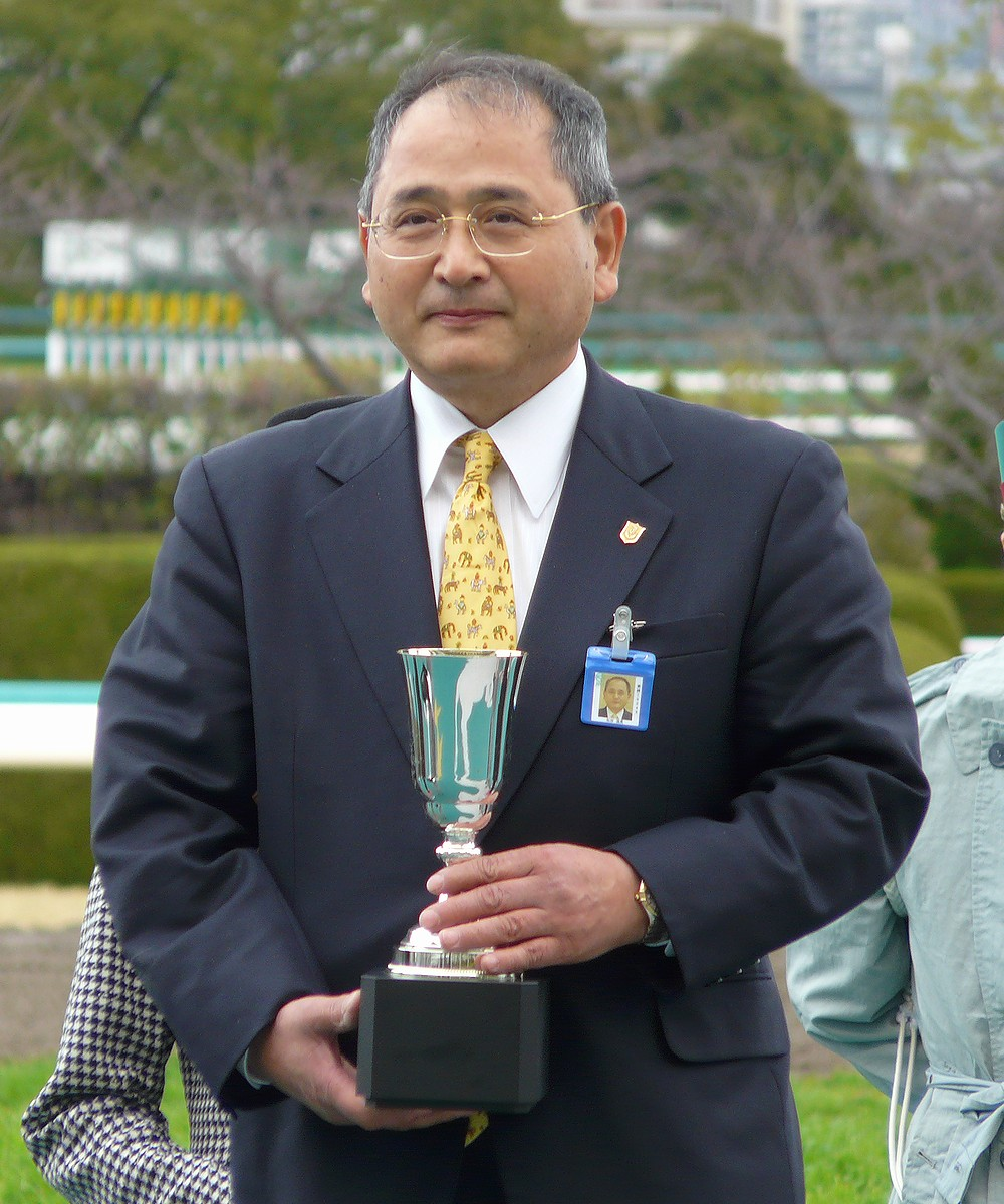 Kunihide-Matsuda20100306